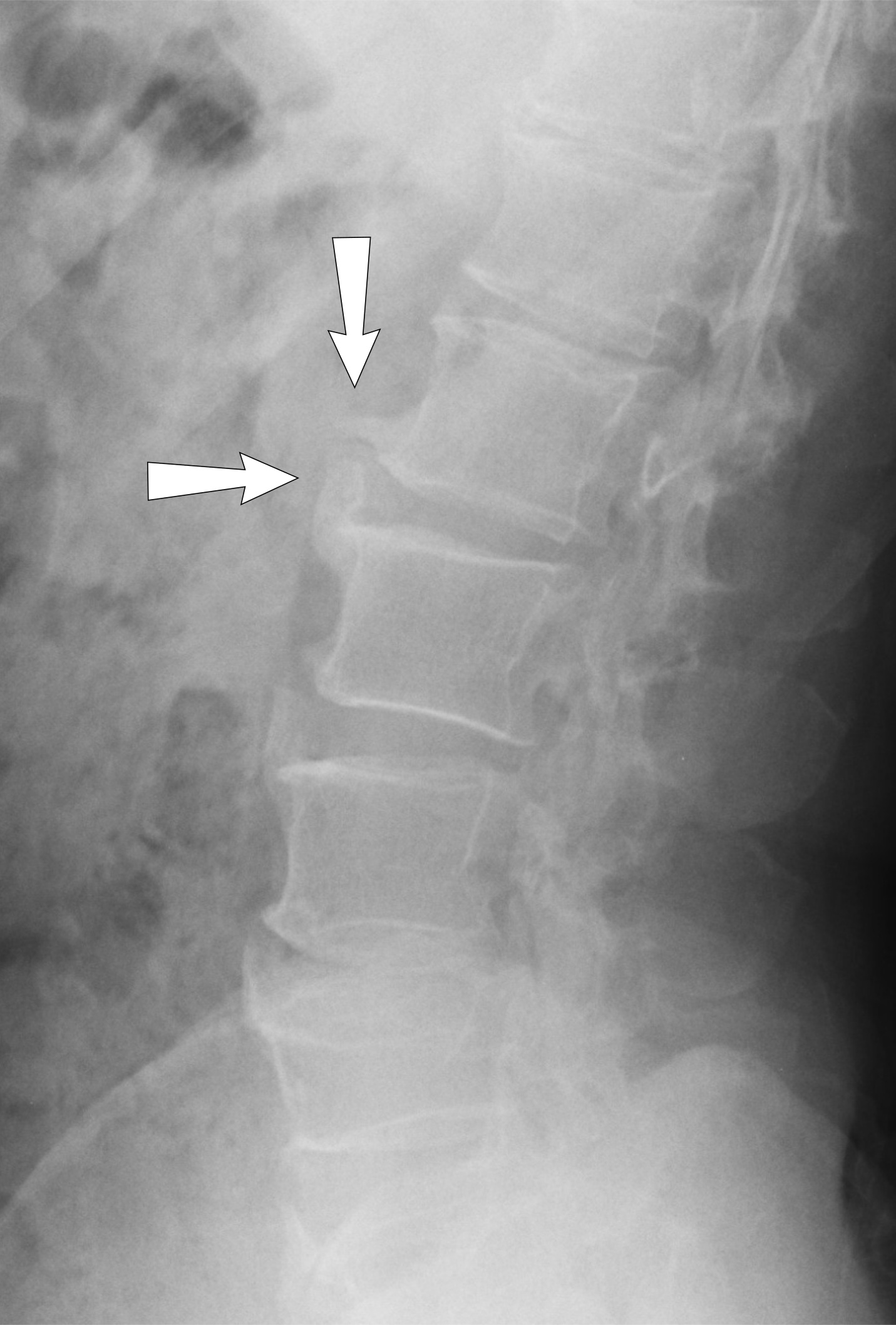 Lateral X-ray of spondylosis of the lumbar spine, with osteophytes marked by arrows.